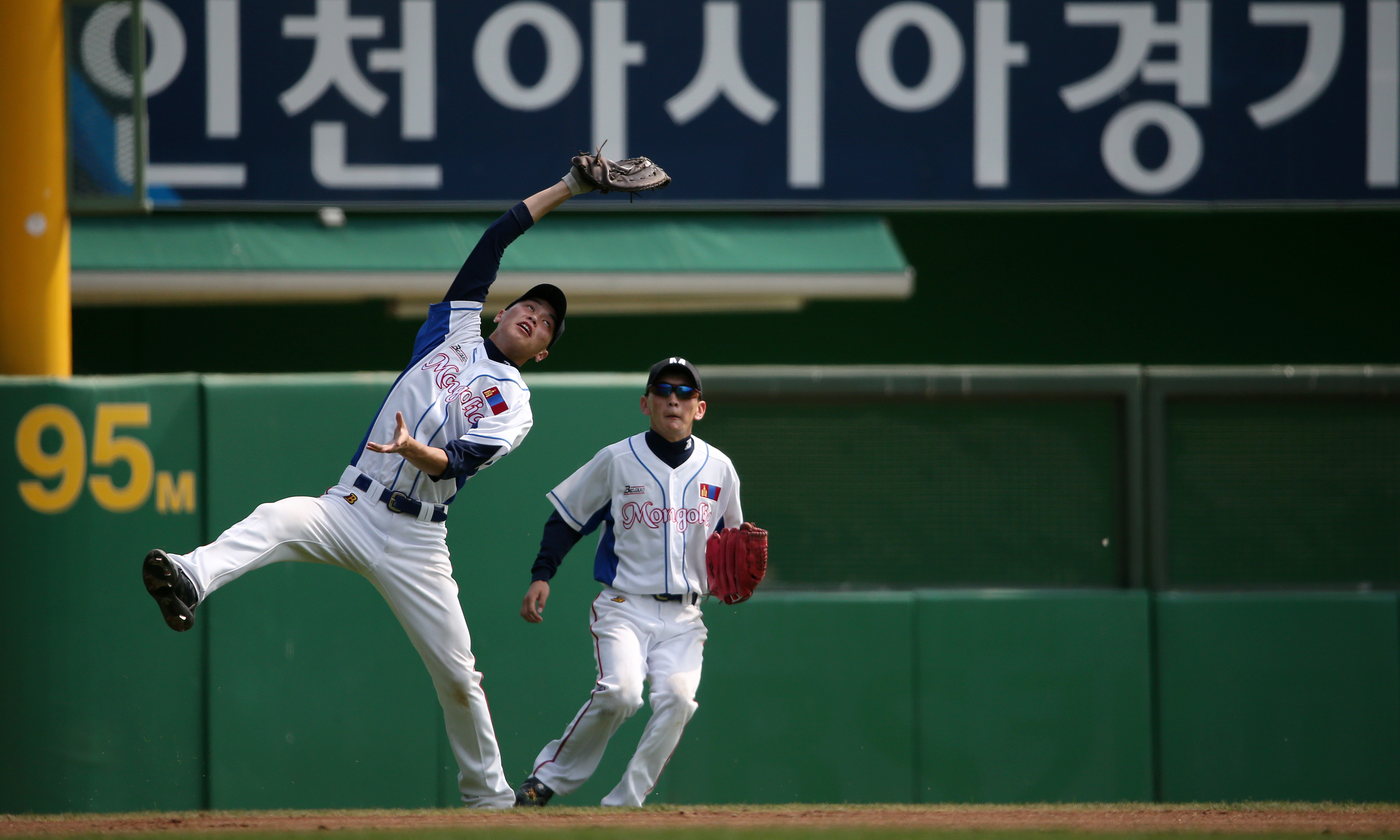 Incheon Asian Games 2014